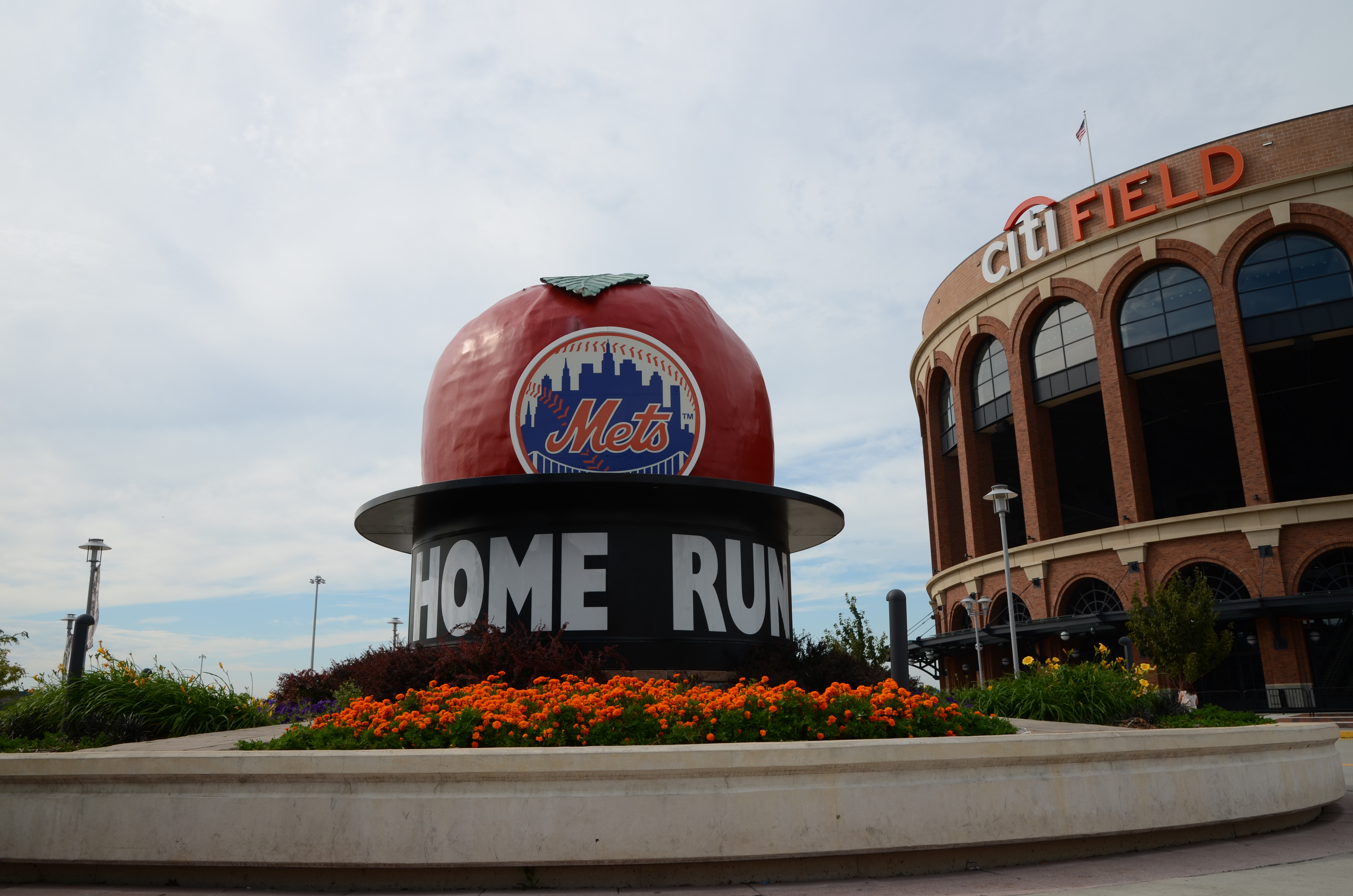 Shea Home Run Apple & Citi Field